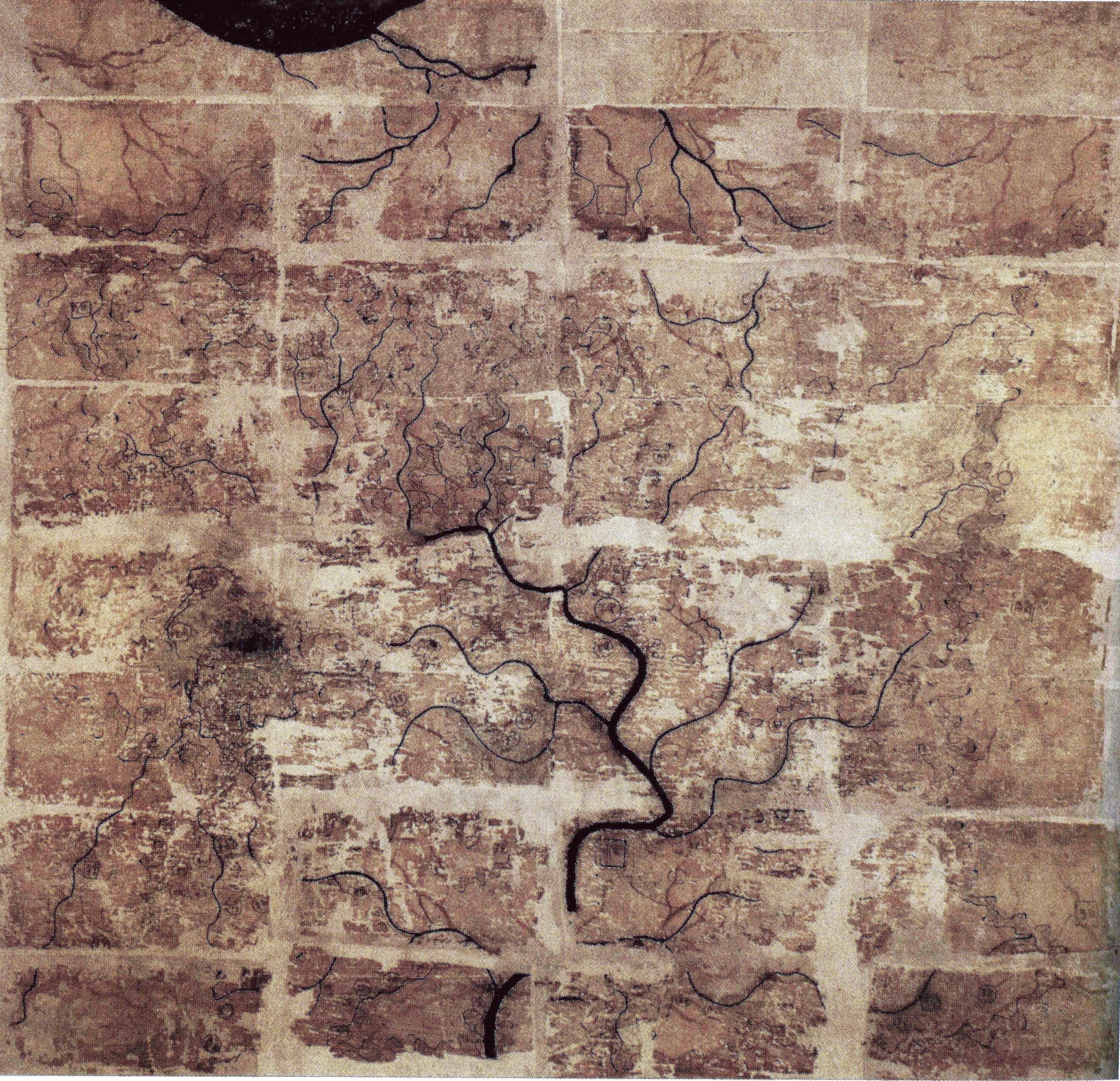 A Chinese topographic map (with the south positioned at the top) from Mawangdui tomb 3; dated to the early Western Han period (183–168 BC); length is 96 cm; width is 96 cm; the map is made of ink on silk. It is now housed in the Hunan Provincial Museum, Changsha. The map depicts a large territory in southern China spanning from the imperial fiefdom of Changsha (a semi-autonomous kingdom within the Han Empire, now modern-day Hunan) to the independent and sometimes hostile Kingdom of Nanyue in what is now modern-day Guangdong and northern Vietnam.